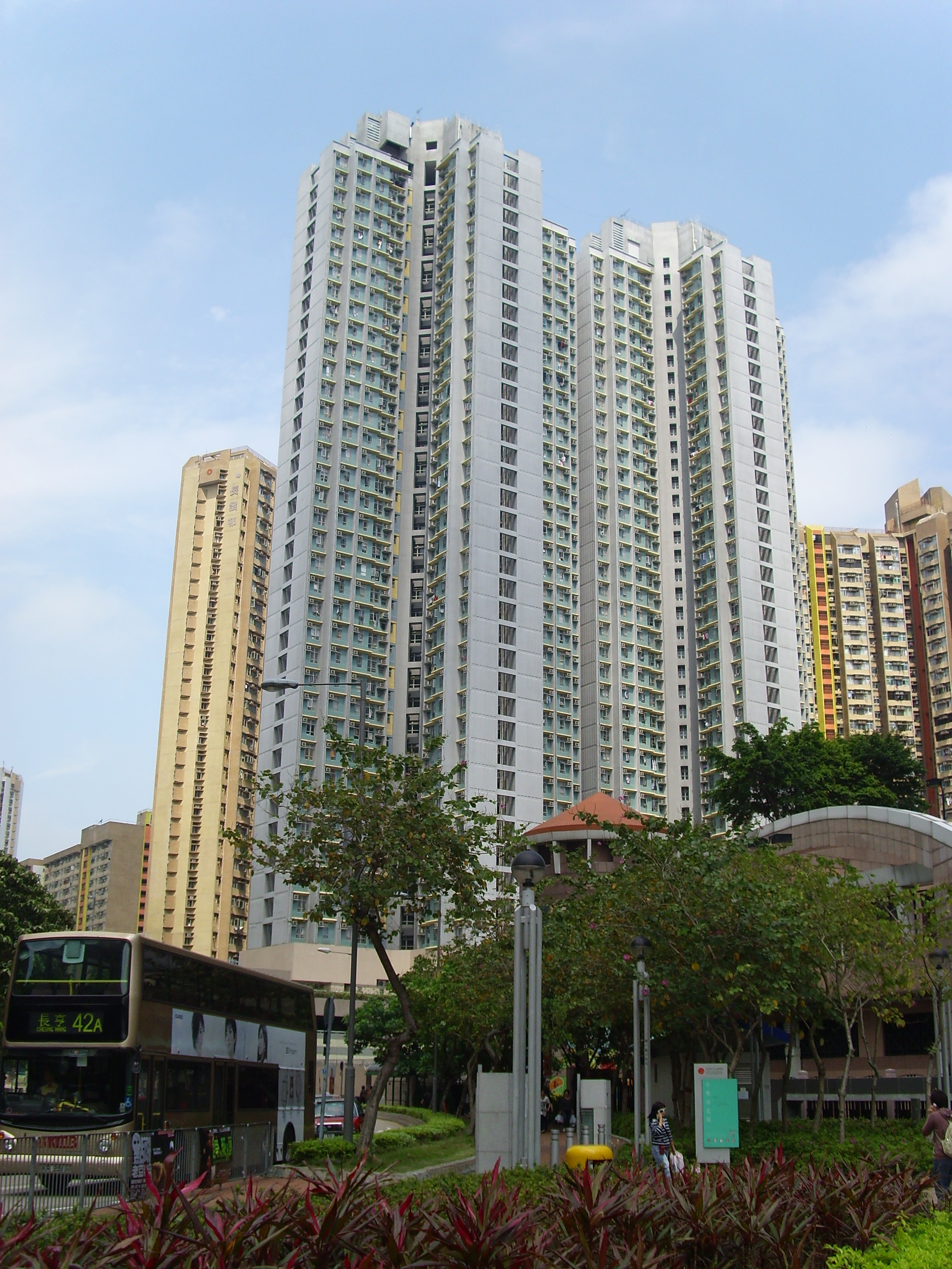 Ching Wang Court. 中文（香港）: 位於青衣的青宏苑。